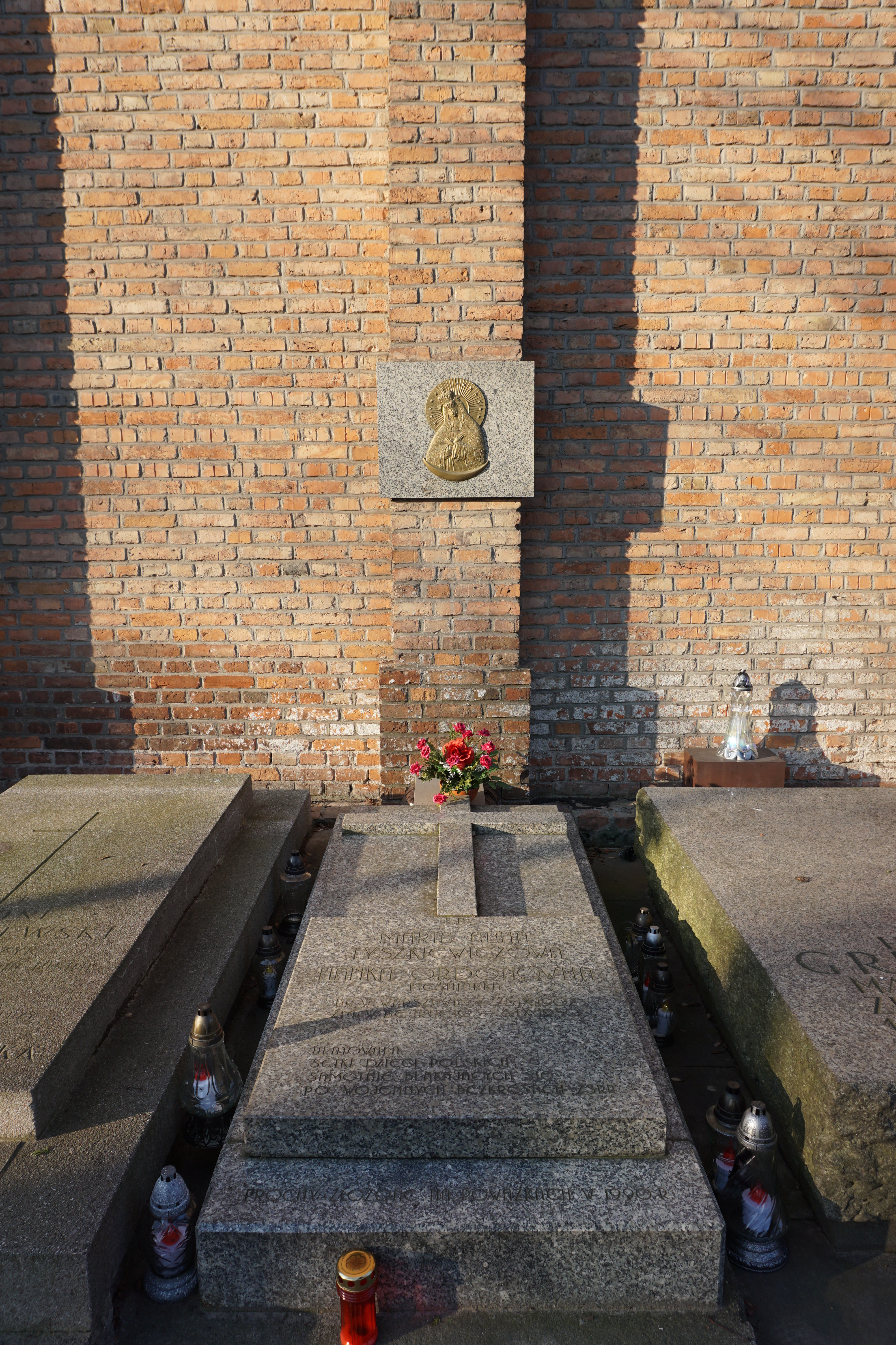 The grave of Hanka Ordonówna at the Powązki Cemetery (Avenue of Deserved, grave 88)